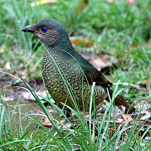 Bird, Satin Bowerbird, Ptilonorhynchus violaceus, female